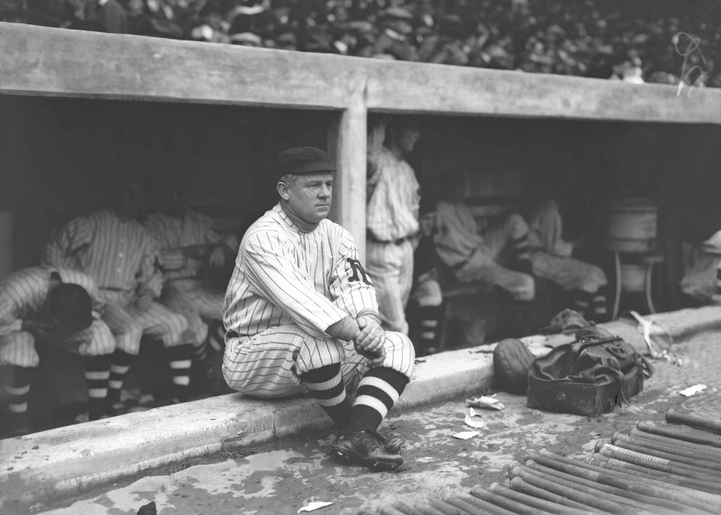 Hall of Fame skipper John McGraw is pictured here in front of the dugout during the New York Giants National League Pennant winning 1912 season.